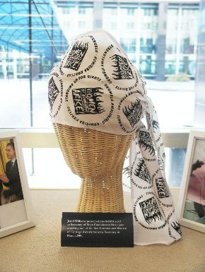 Scarf, with emblem of Women of Zimbabwe Arise (WOZA) Zimbabwe 2007 Gift to Secretary Rice from Jenni Williams, WOZA founder Collections of the U.S. Diplomacy Center